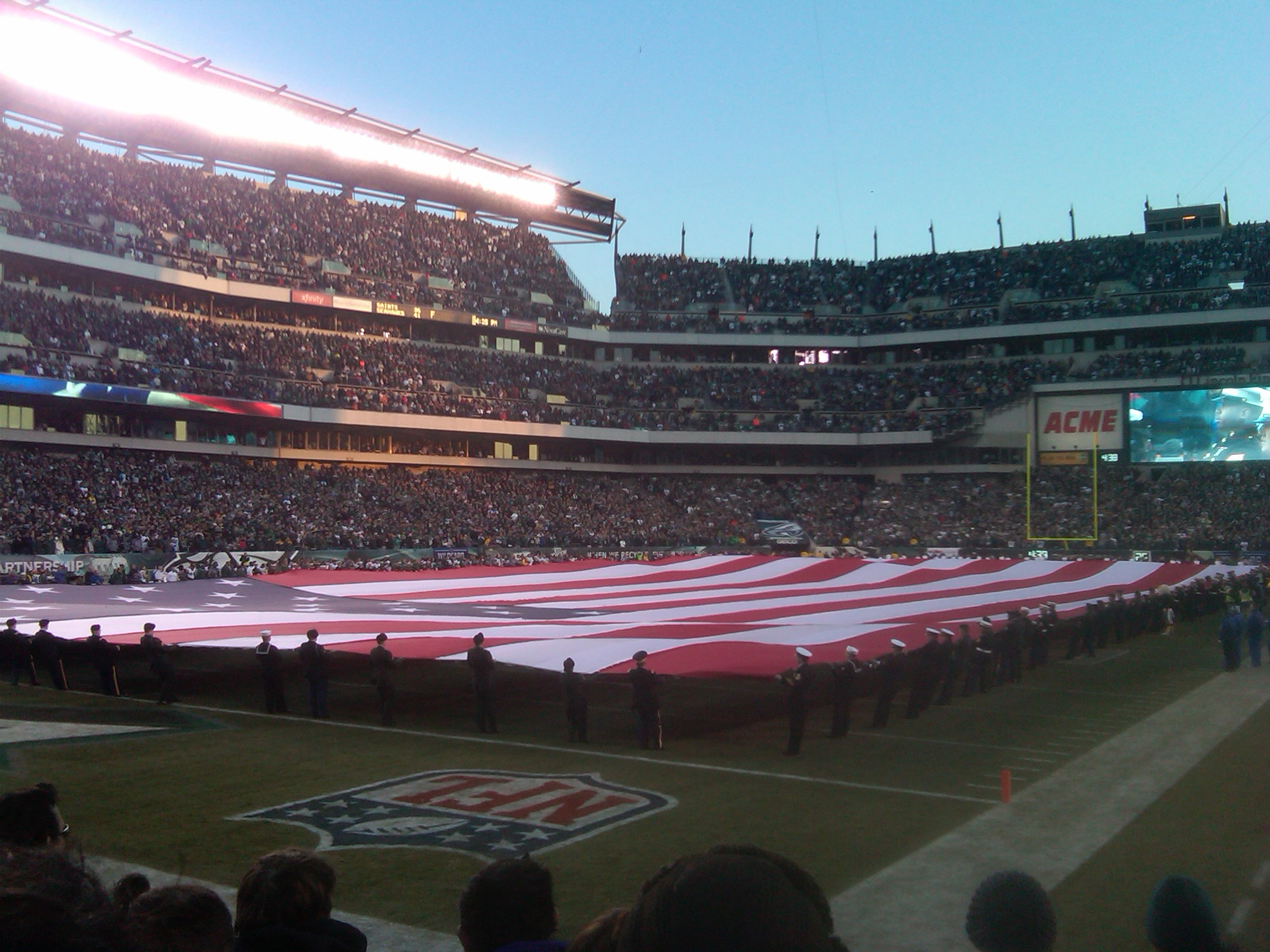 Eagles vs Packers 1/9/11